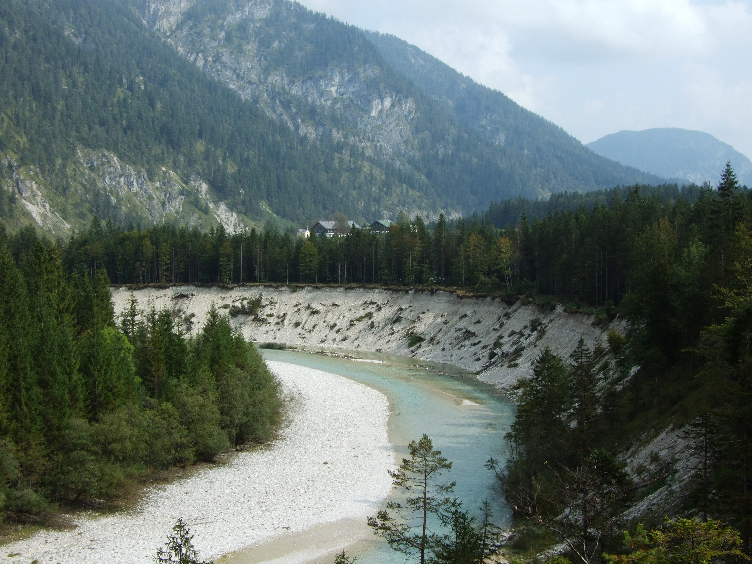 The small bavarian village Vorderriß seen from a western location and the river Isar. Just three of the about 7 buildings of Vorderriß are seen on the photo.